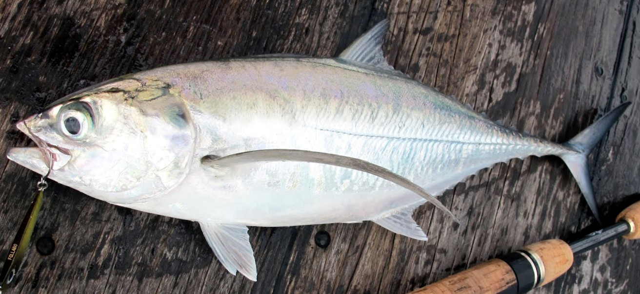 Taken from Cape York